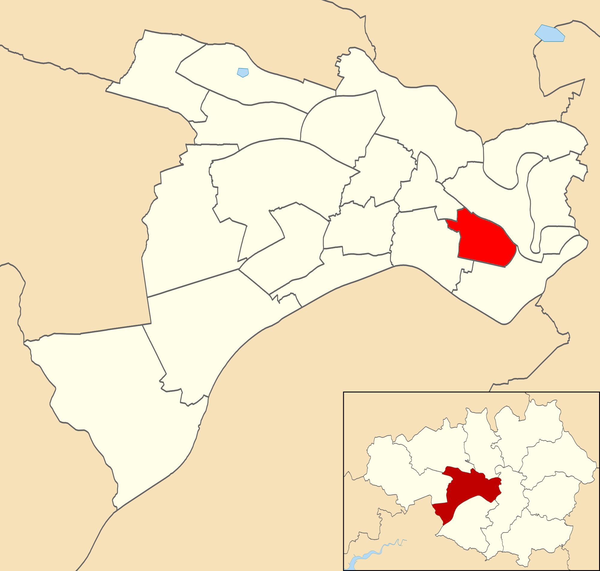 Map showing location of Langworthy ward within Salford City Council.